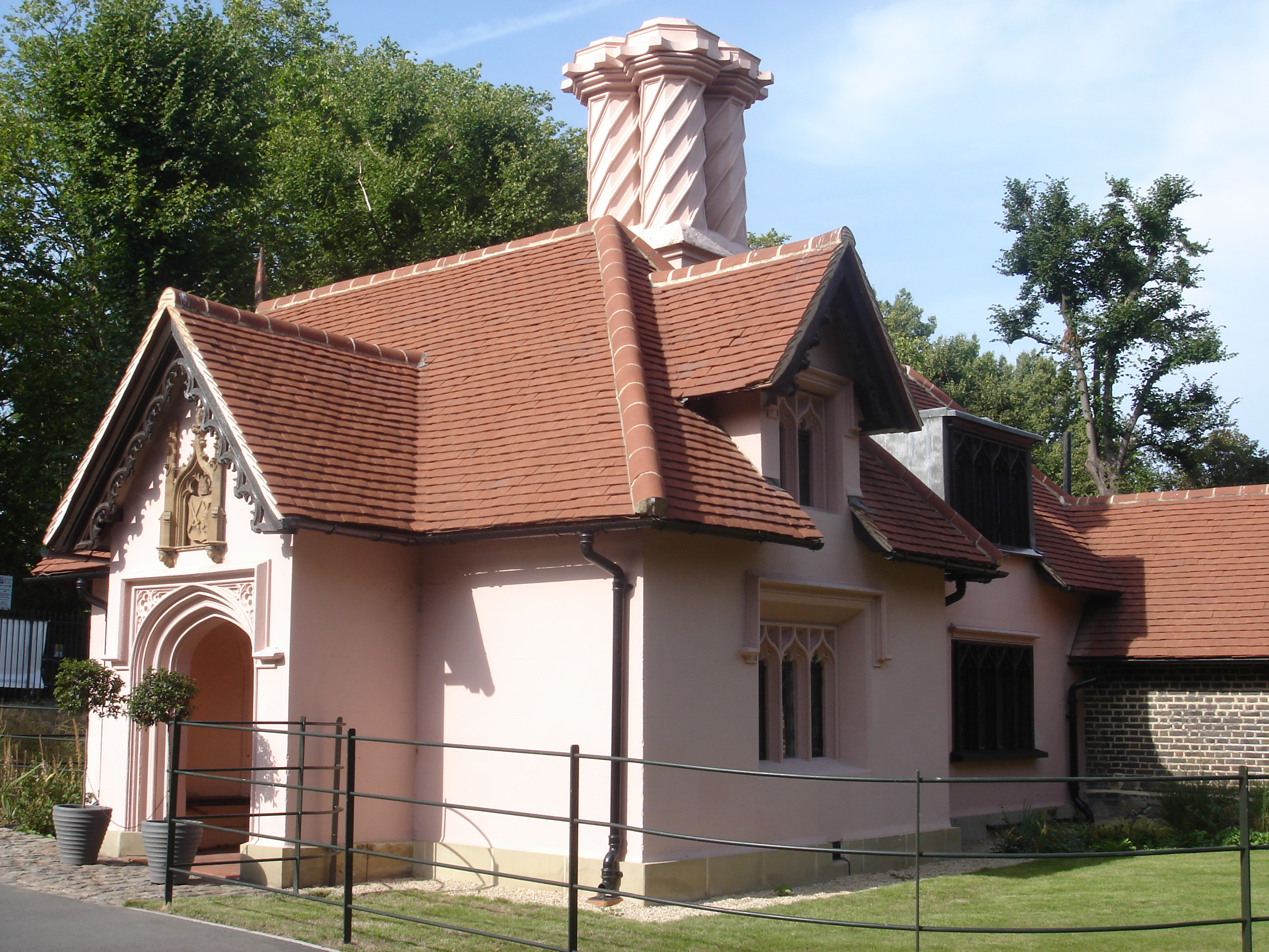 Fulham Palace, London